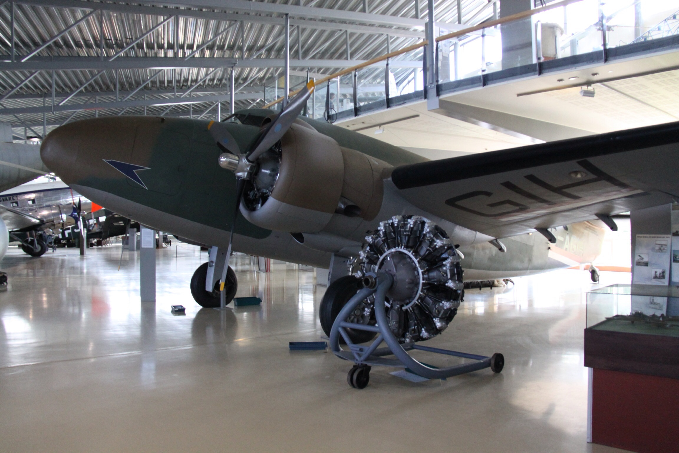 At Oslo Gardermoen